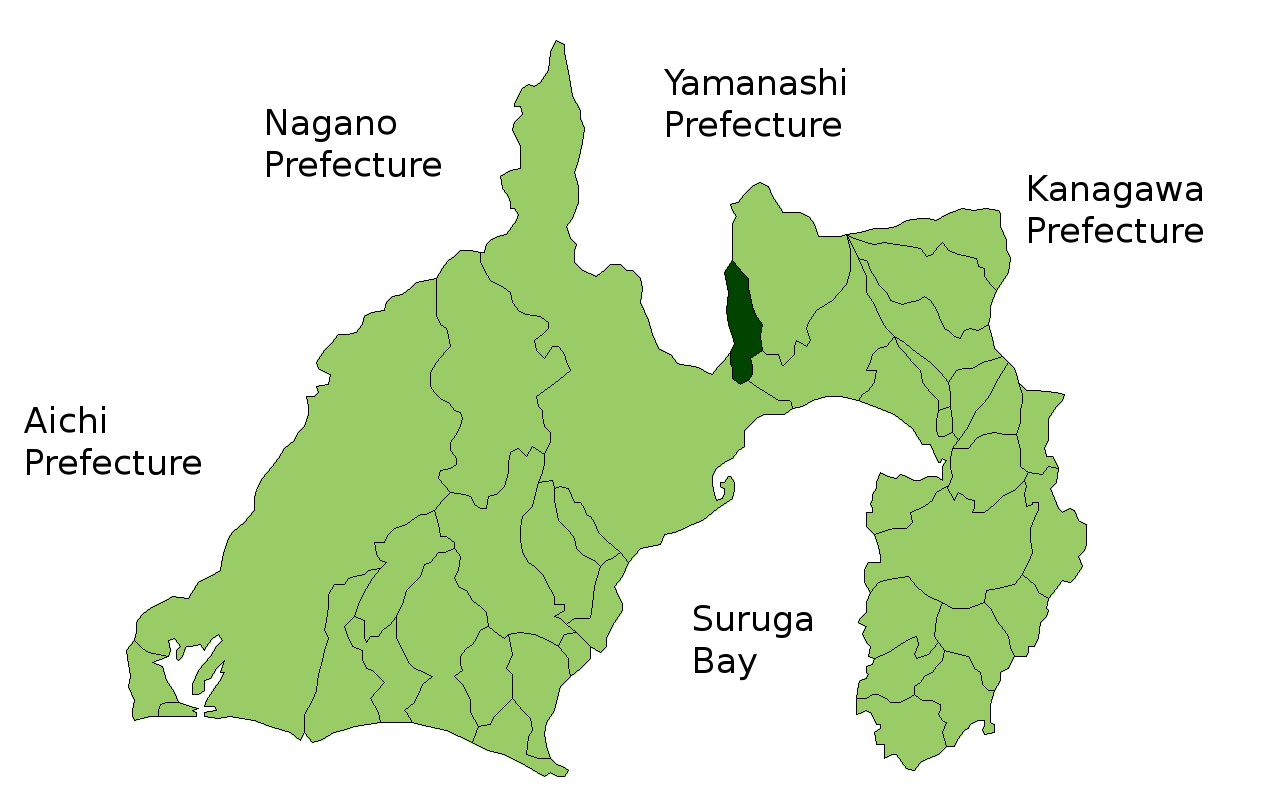 The location of Shibakawa in Shizuoka Prefecture, Japan